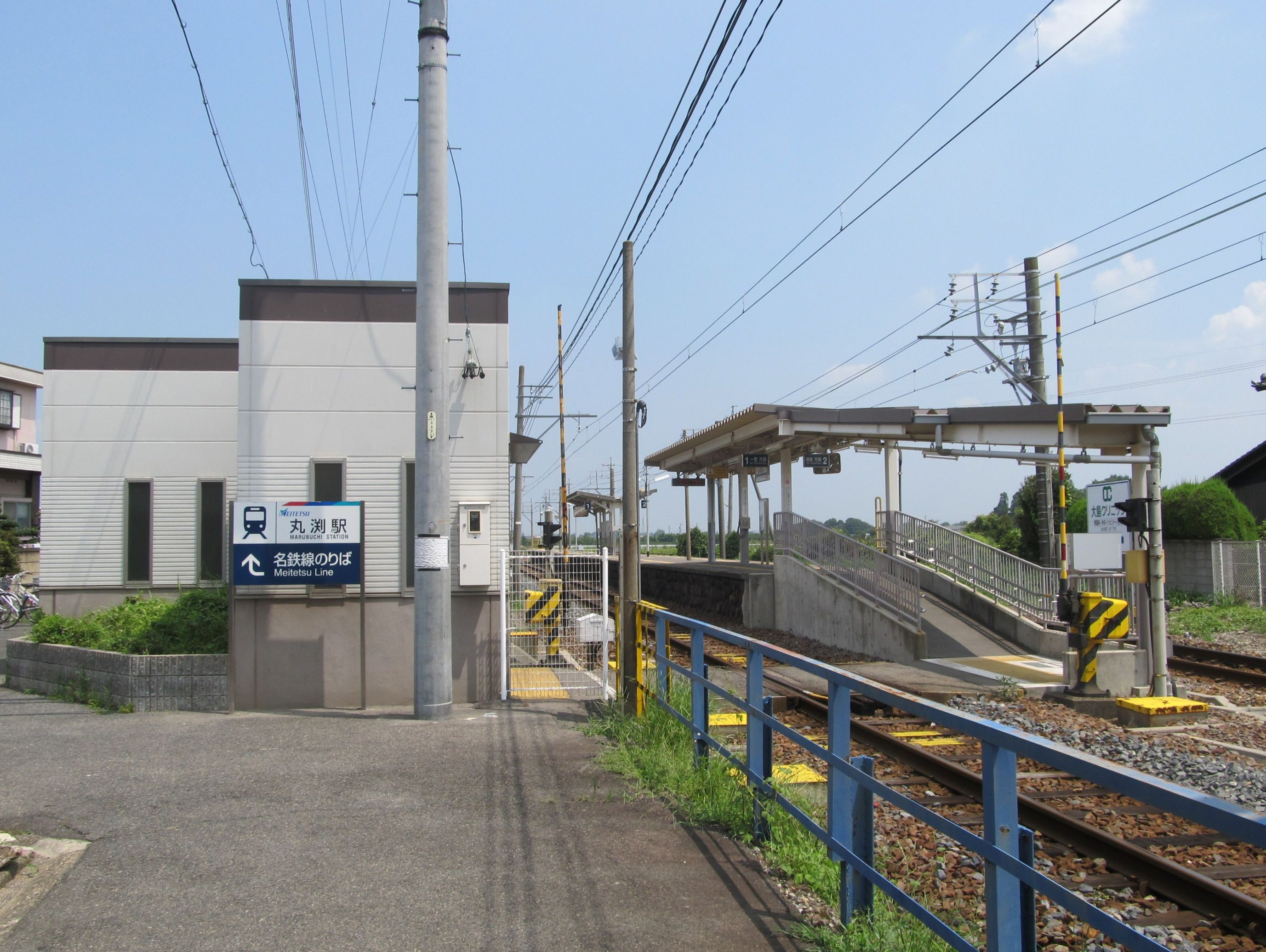 Nagoya Railroad Bisai Line Marubuchi Station Platform.